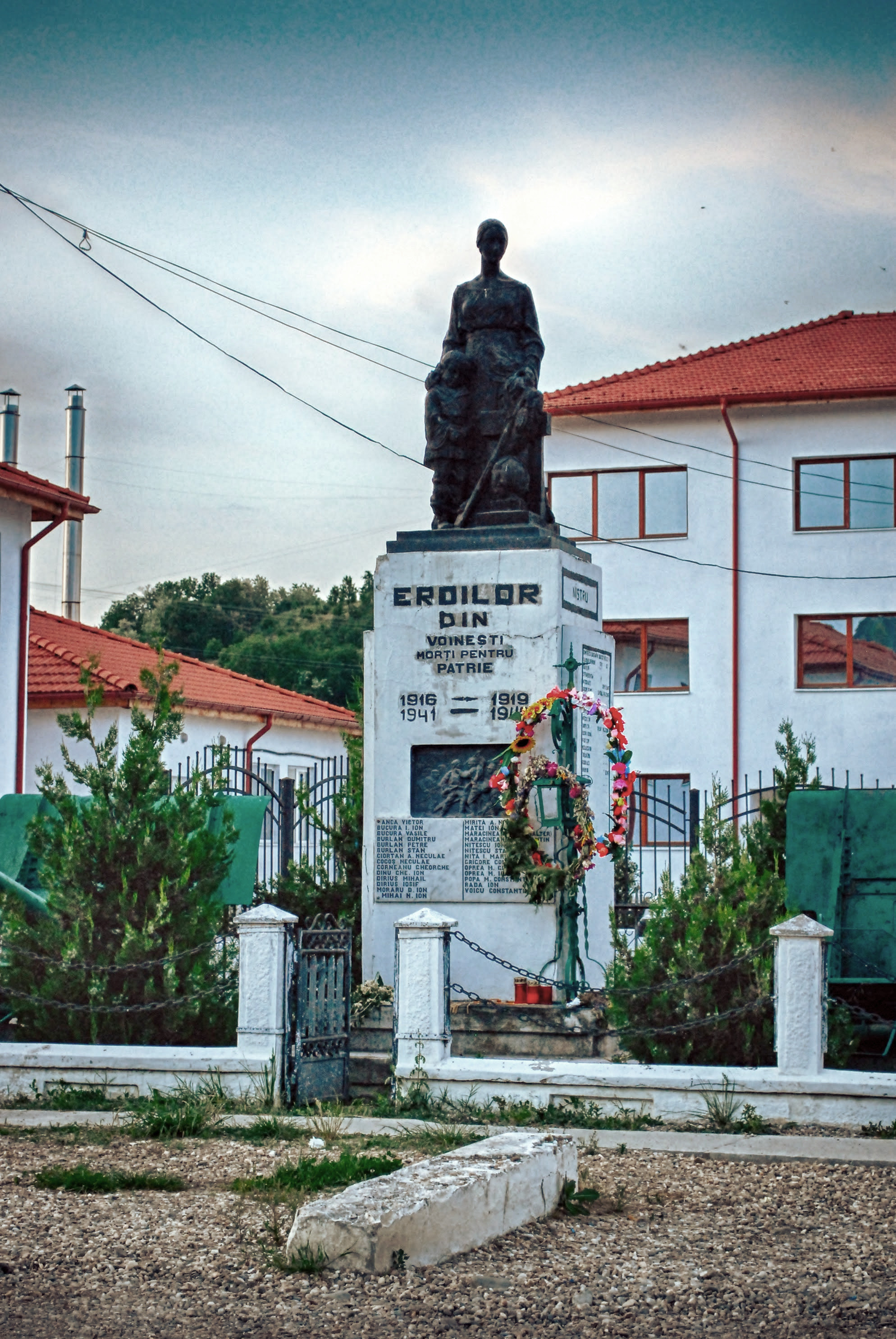 Heroes' monument in Voinești, Dâmbovița County, RomaniaRomână: Monumentul eroilor din Voinești, județul Dâmbovița, România